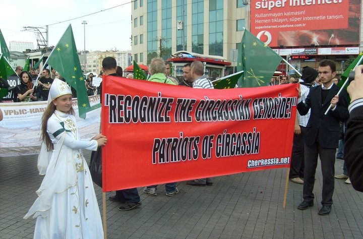 Circassians commemorate the banishment of the Circassians from Russia in Taksim, İstanbul